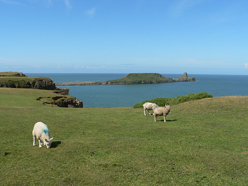 Worms' Head View, Gower, Wales, UK